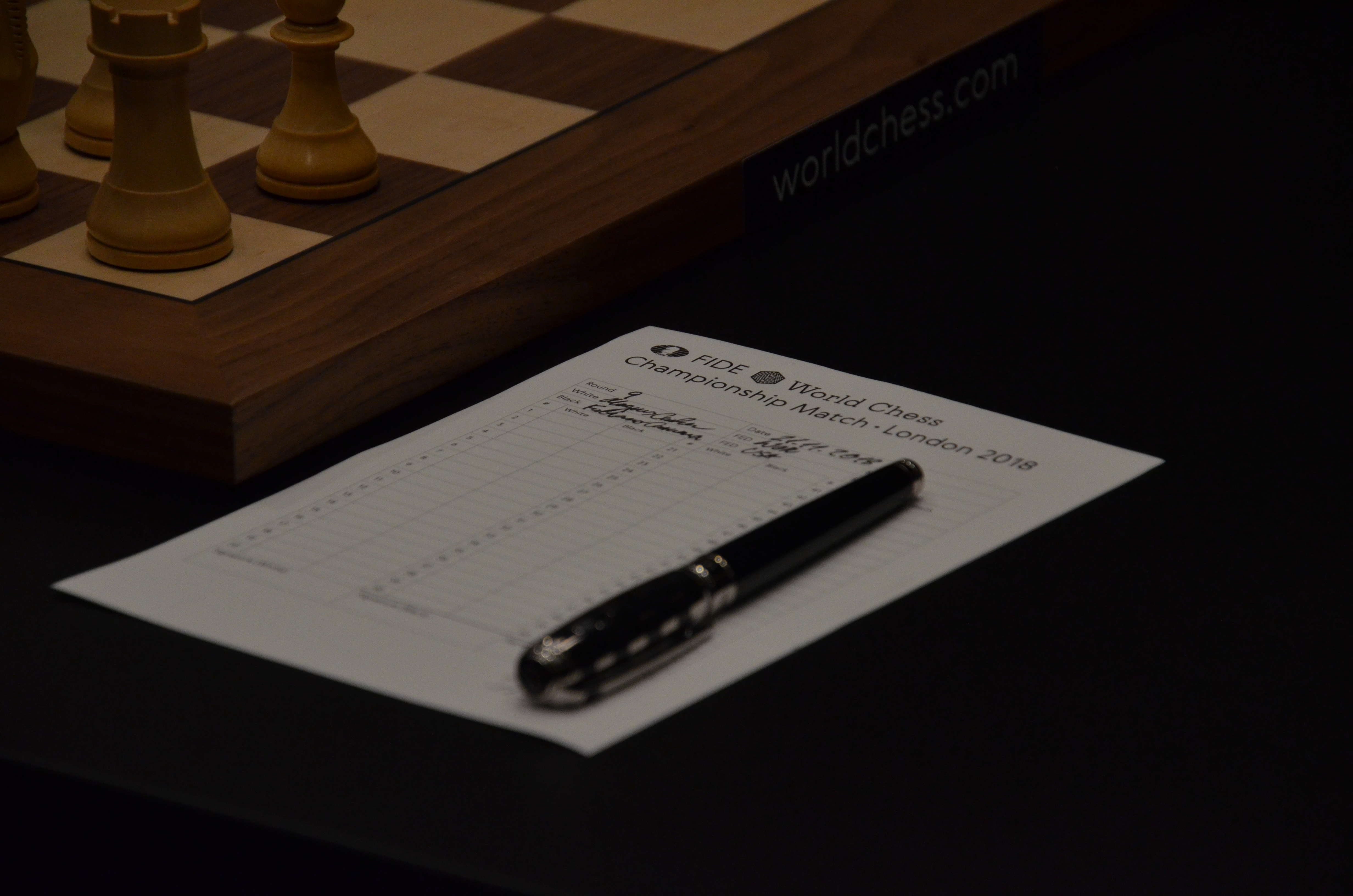 Carlsen's scoresheet, London 2018.